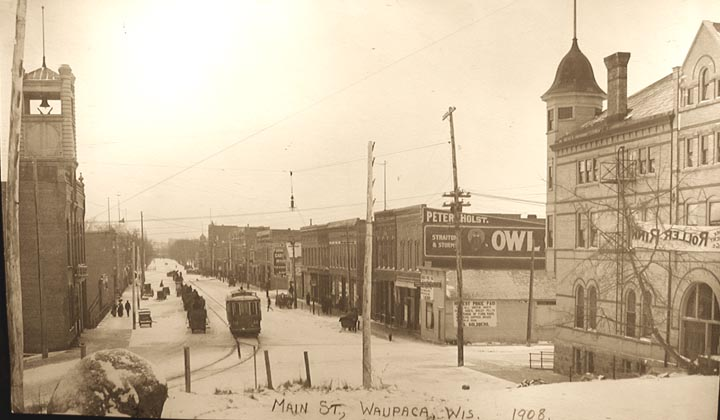 Looking south at historic downtown Waupaca, Wisconsin in 1908. Danes Hall is the building on the far right.